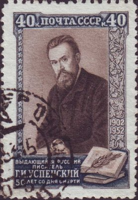 Russian writer Gleb Uspensky. 1952 (50th anniversary of his death.)